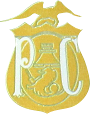 Insignia of the Philippine Constabulary from 1901 to 1914.